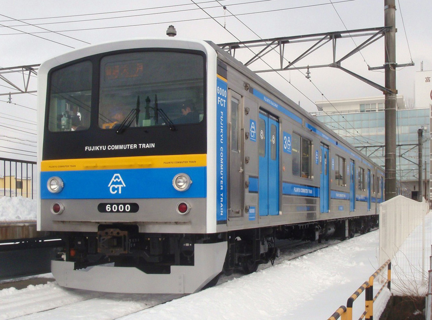 Fujikyu 6000 series EMU at Fujisan Station on its first revenue working on a service bound for Otsuki